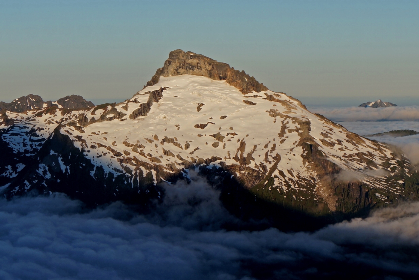 Sloan Peak seen from Painted Mountain in North Cascades of WA